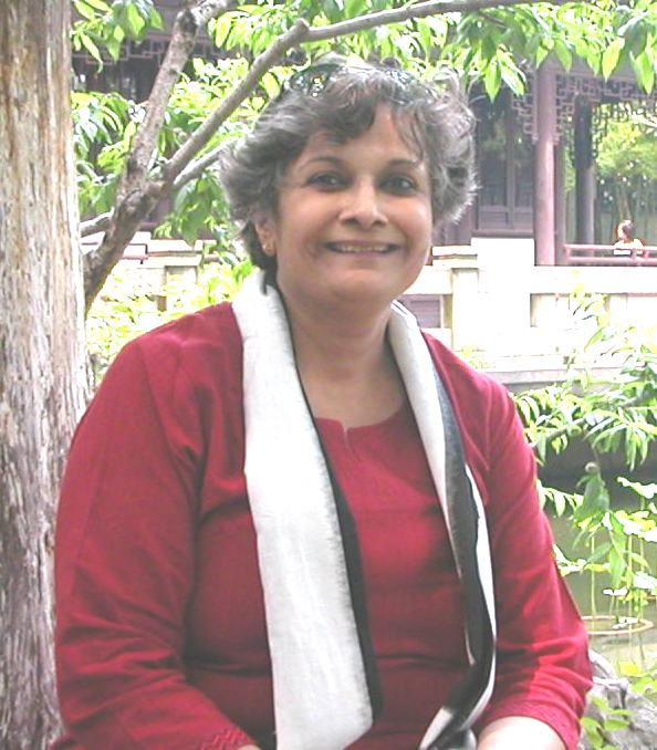 Portrait of Prof. Sujata Patel.